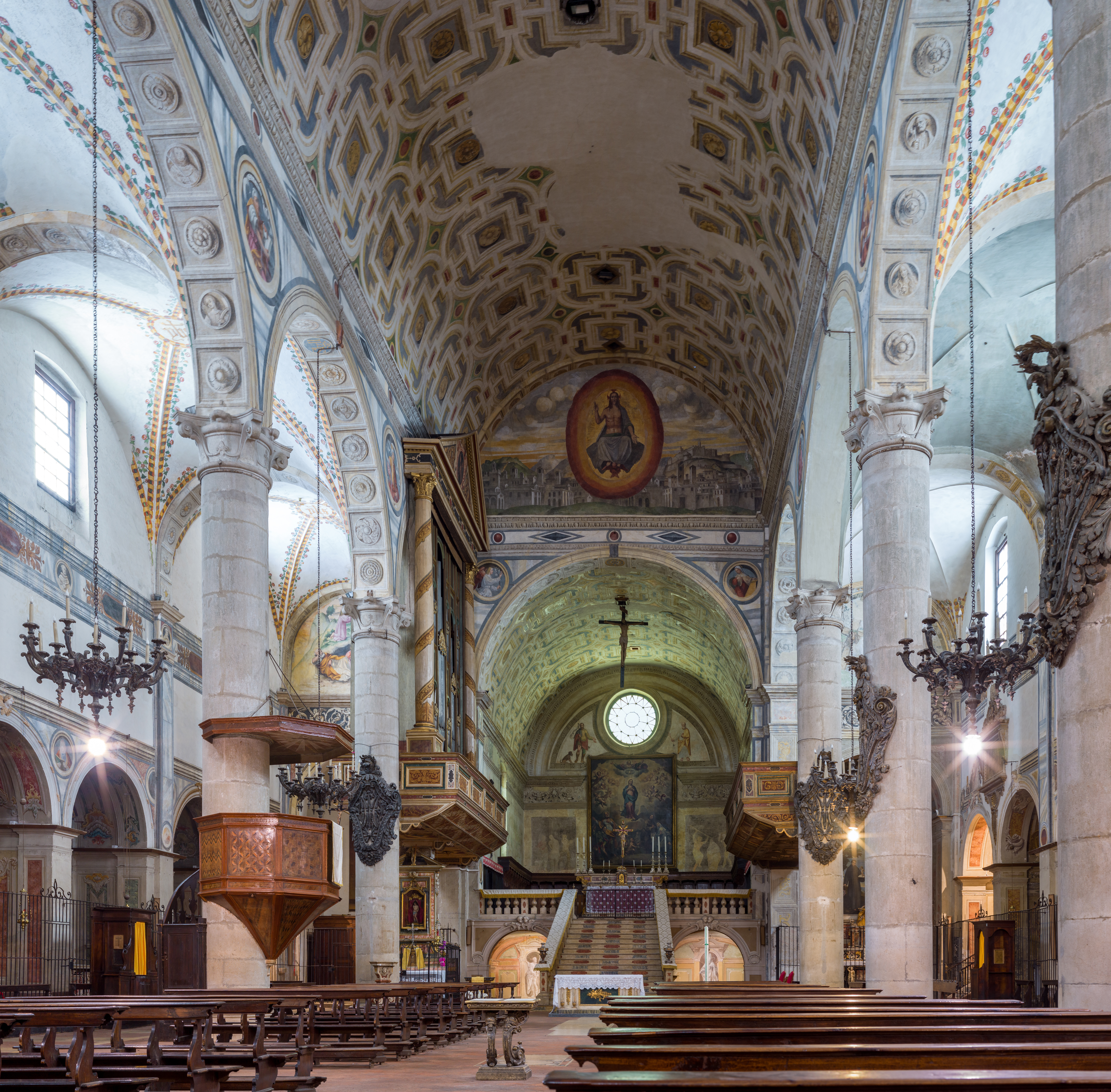 Main nave and altar of the Chiesa di San Giuseppe church in Brescia.